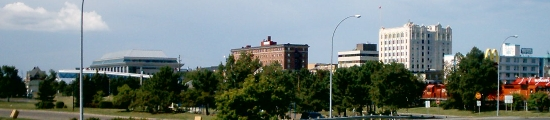 I, (Derek Silver), took this photograph on 03 August 2006. It is the skyline of the Port Arthur business core, in Thunder Bay, Ontario. I hereby release it into public domain for the masses to enjoy. :) Vidioman 02:37, 14 March 2007 (UTC) I, (Derek Silver), took this photograph on 03 August 2006. It is the skyline of the Port Arthur business core, in Thunder Bay, Ontario. I hereby release it into public domain for the masses to enjoy. :) Vidioman 02:37, 14 March 2007 (UTC)